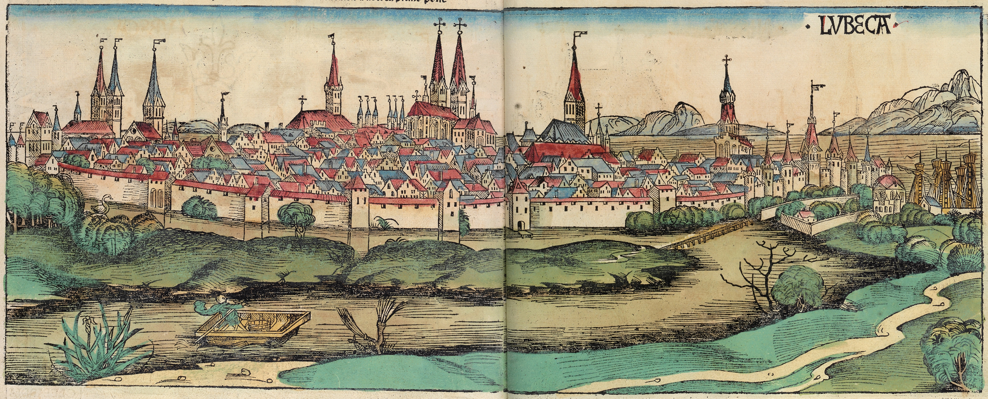 Illustration from the Nuremberg Chronicle (Latin copy in Sao Paulo)